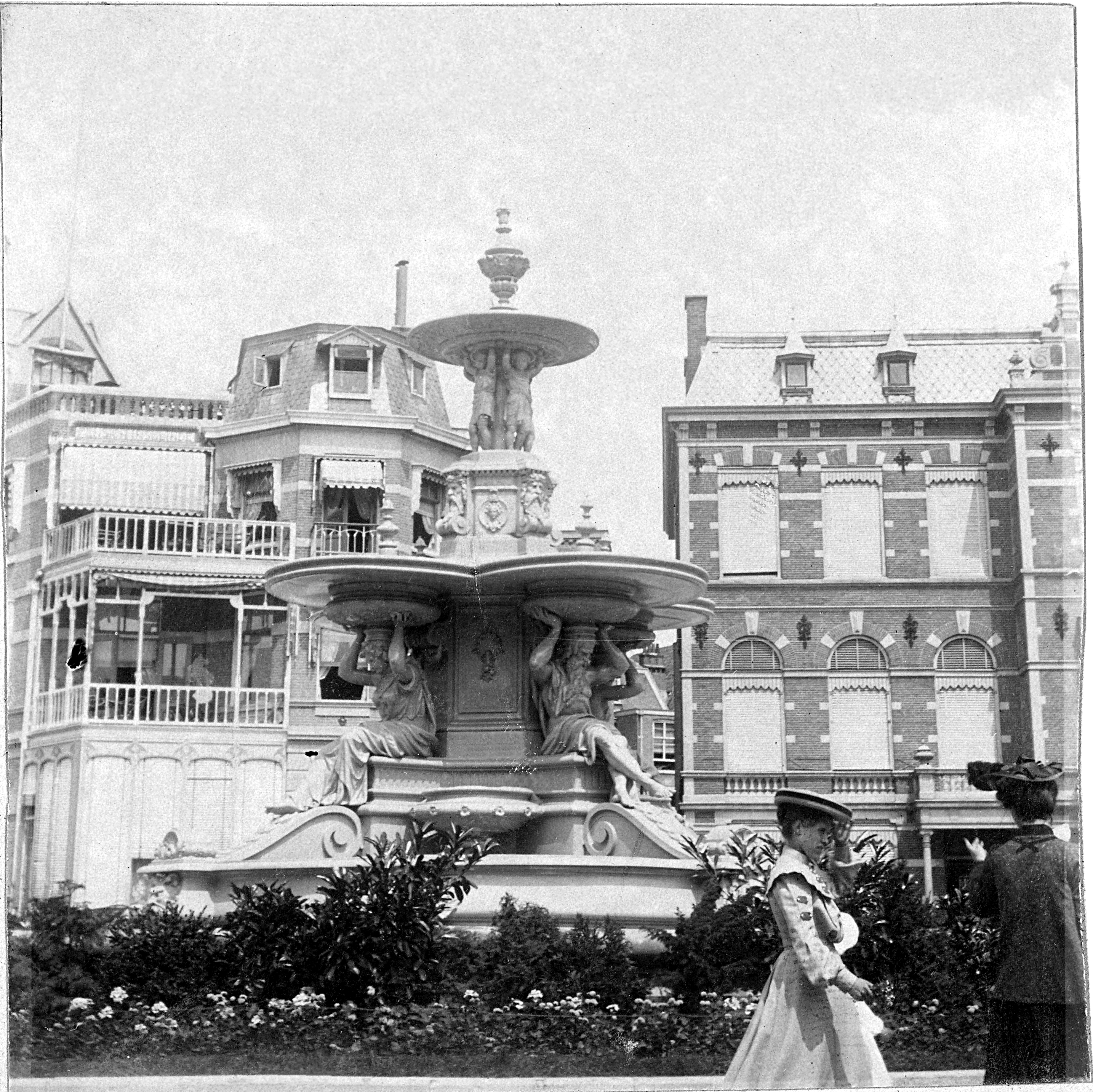 Fountain on the Bankaplein square in The Hague, the Netherlands, ca. 1900 - 1925.